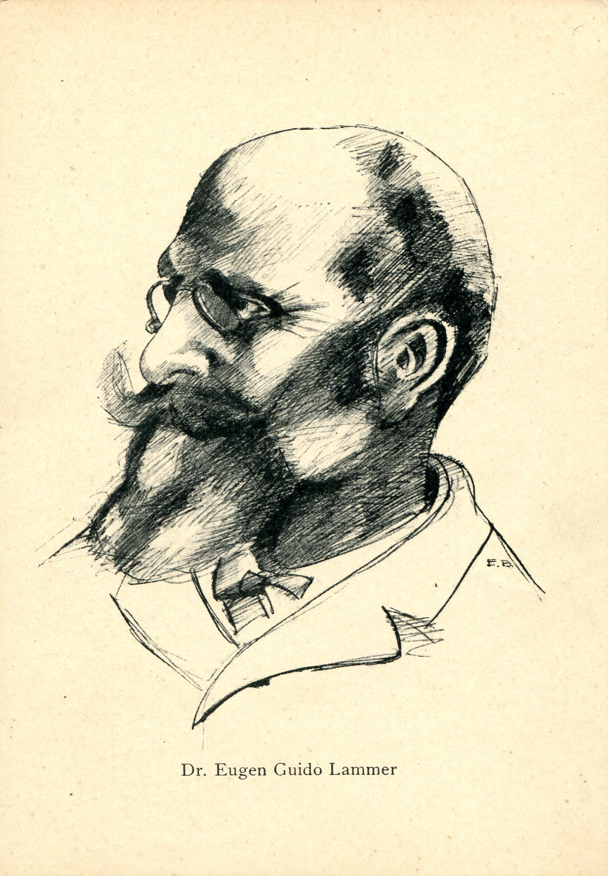 Portrait of the writer and alpinist Eugen Guido Lammer (1863-1945).